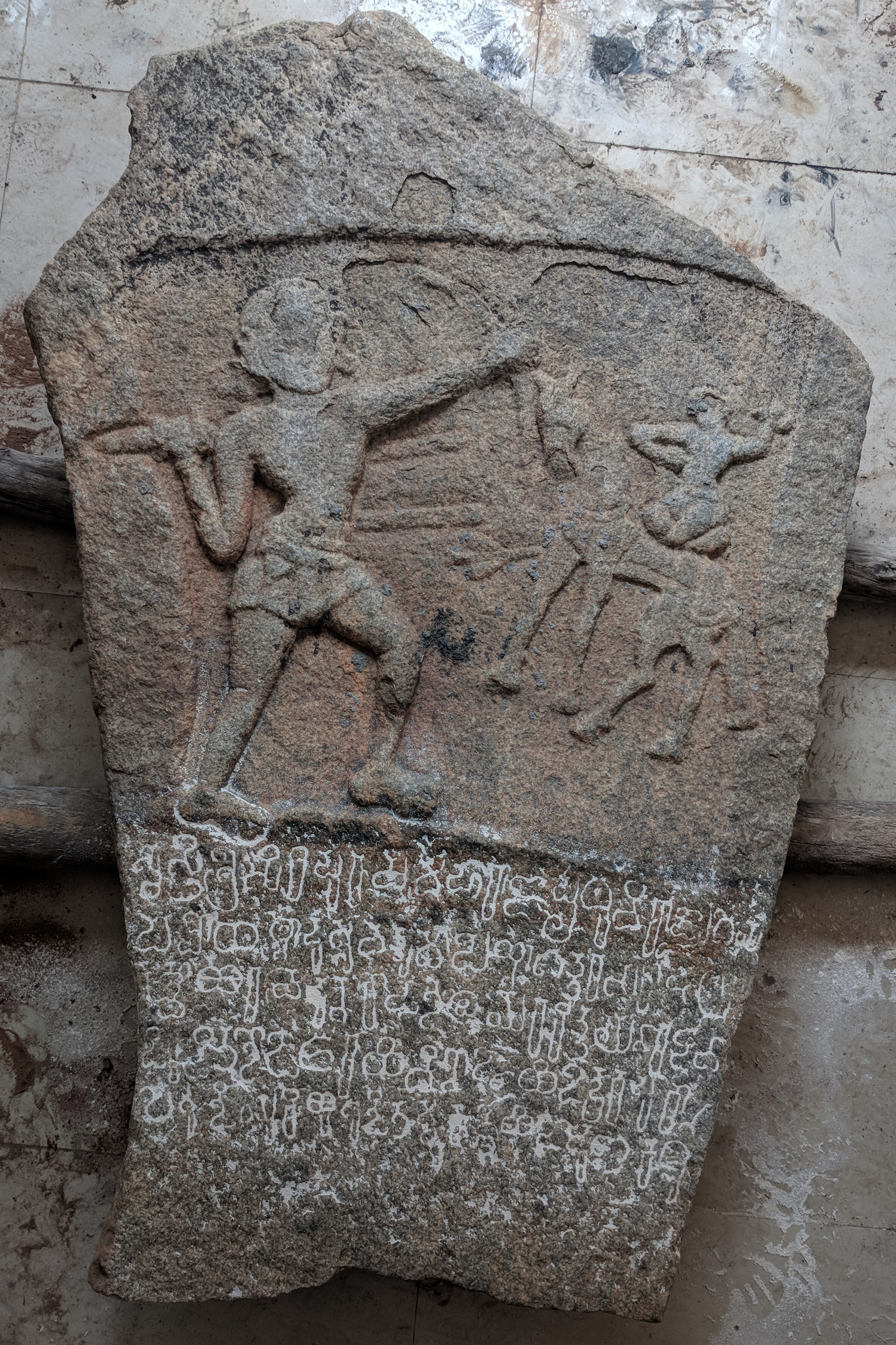 The 750CE Hebbal-Kittayya veeragalu with inscription is Bangalore's oldest inscription and is housed in the crowd-funded Ganga style Hebbal-Kittayya mantapa